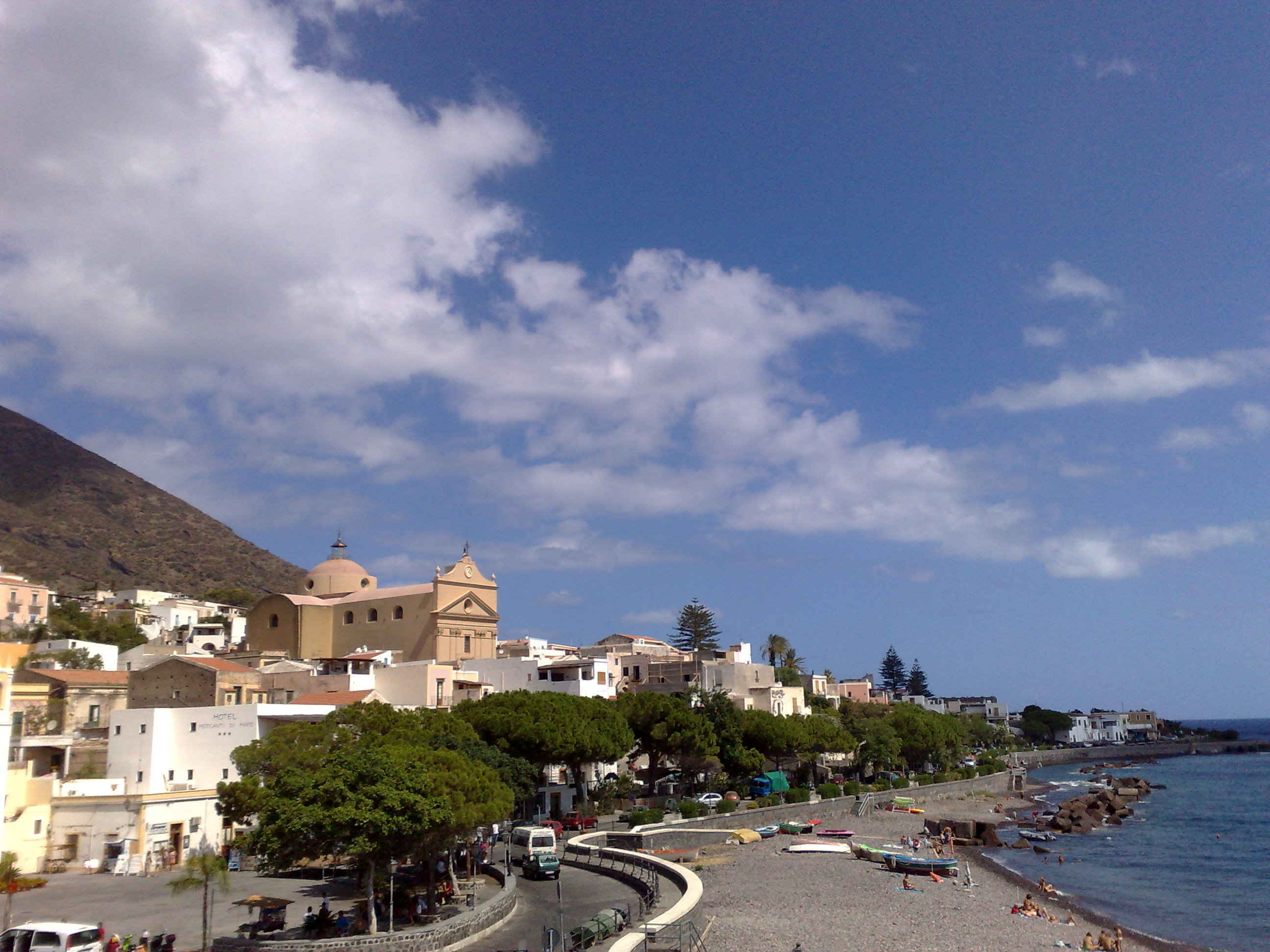 Santa Marina in Salina: landscape